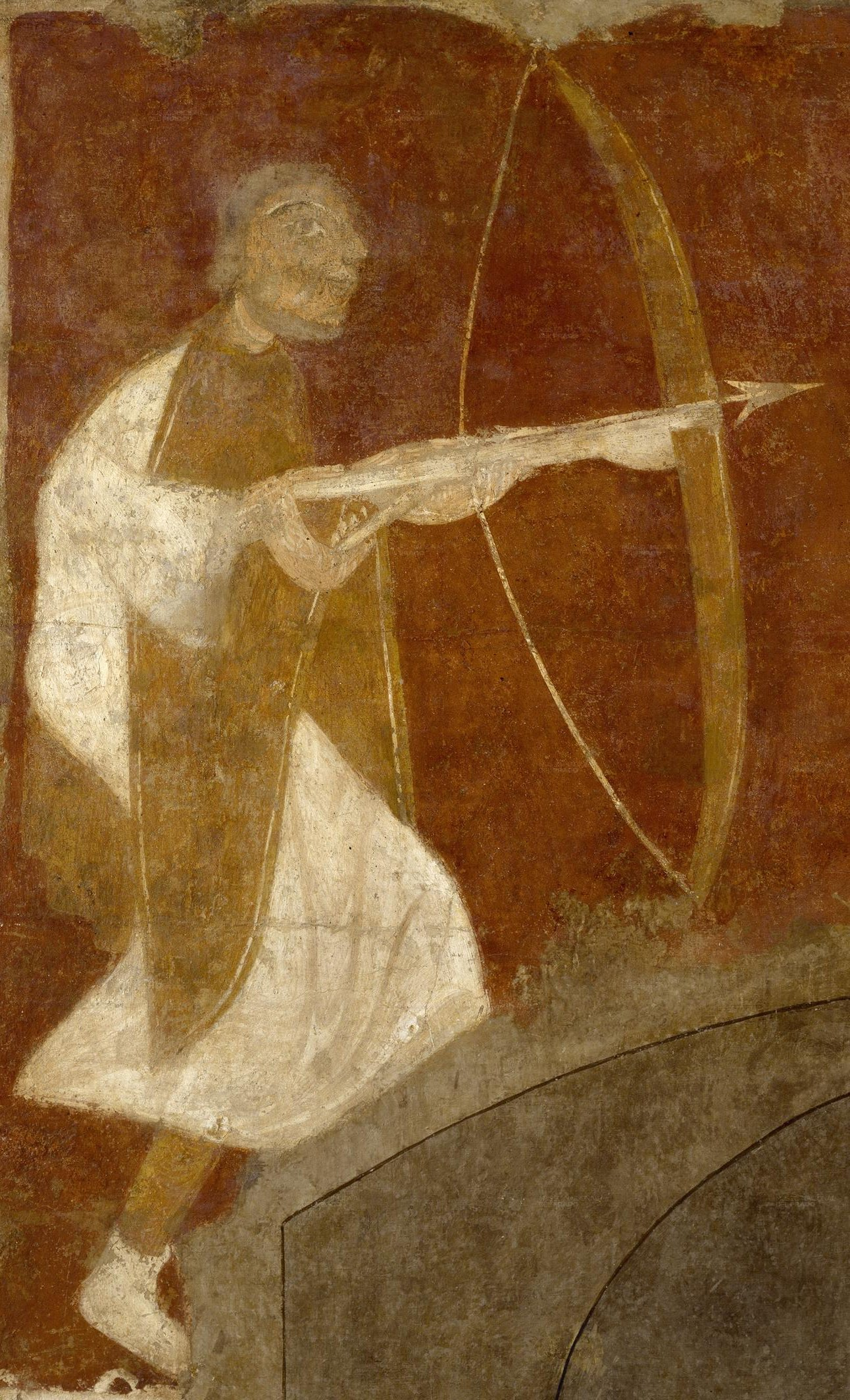 Frescos from the Church of San Baudelio de Berlanga, Soria, Spain 12th century